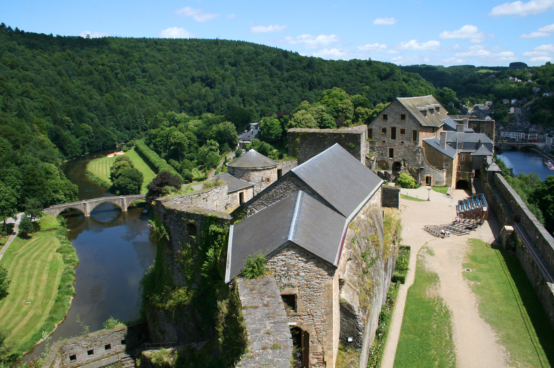 Bouillon (Belgium): the fortified castle (10th–16th centuries) – the big and the little powder-magazines, the horn (corne) of Turenne, the arsenal and the bridge on the Semois river viewed from the tower of Austria.